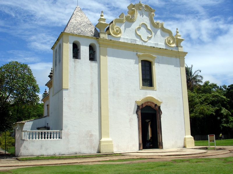 Old church in Porto Seguro.